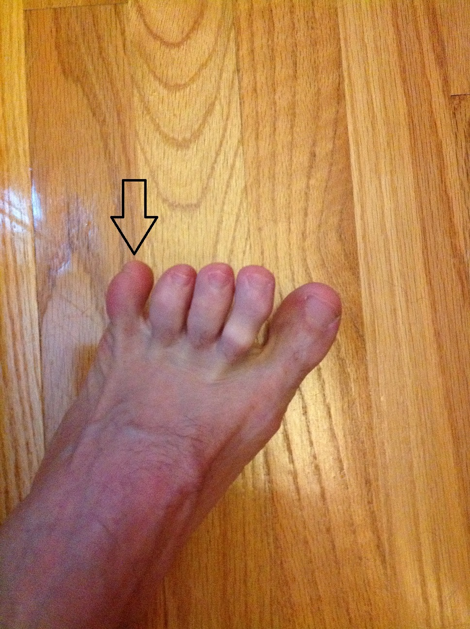 The left foot of an adult male with the fifth toe highlighted.